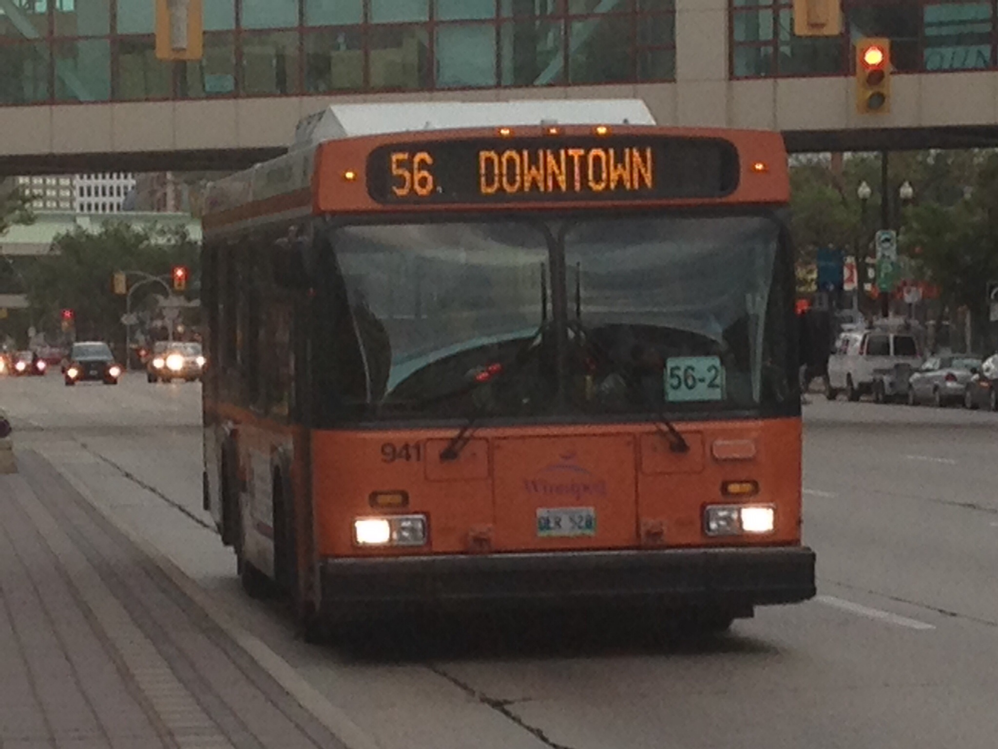 Route 56 bus, Winnipeg Transit, at Portage Avenue and Colony Street.